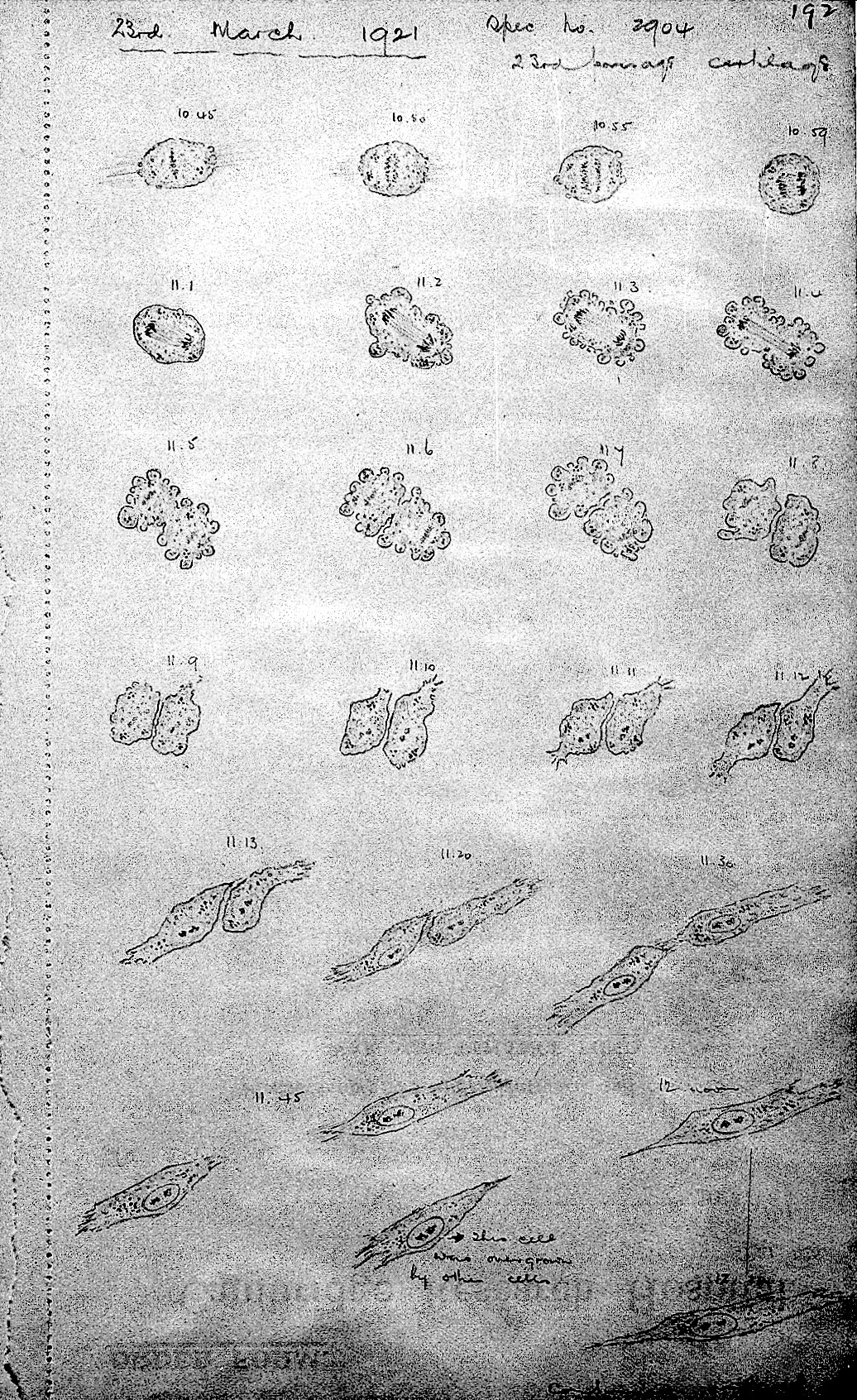 One of three notebooks, labelled 'Research Hospital, Cambridge' believed to be written by T P S Strangeways, the founder of the laboratory. Book 2, pages 189-363 with drawings and notes. Archives & Manuscripts Keywords: strangeways research lab.; T P S Strangeways